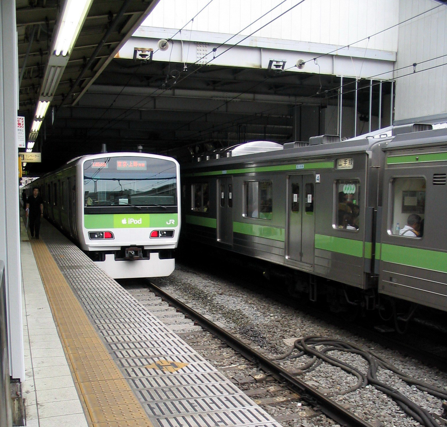 Train of the Yamanote Line, Tokyo. E231 series EMU on the left, with a 205 series on the right.